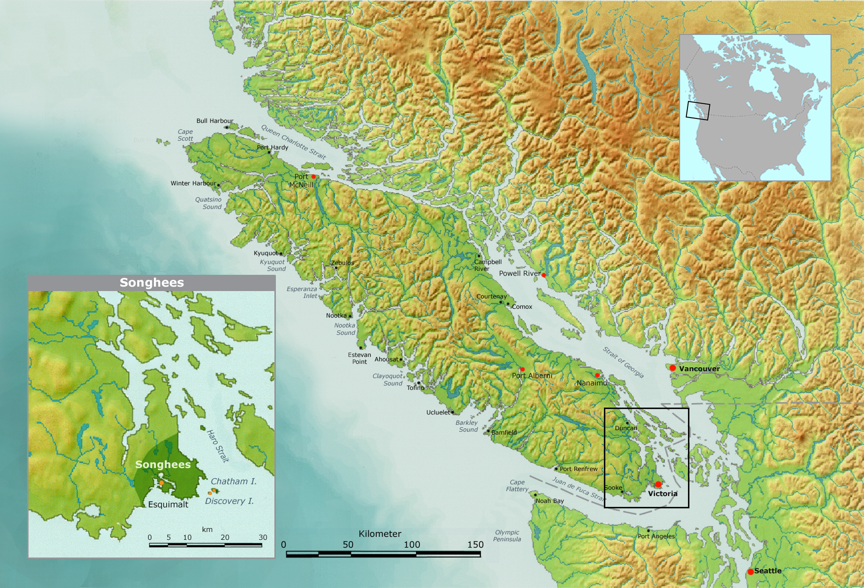 Map of Songhees tribal territory